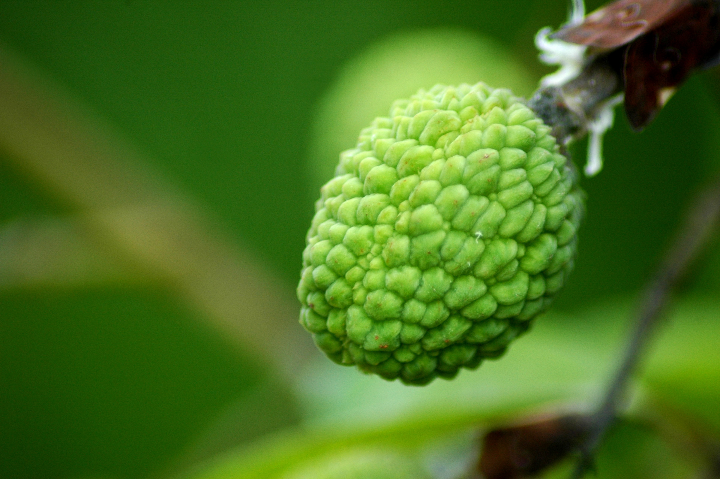 An unripe lychee hanging from a tree in the Hong Kong Wetland Park (June 2011)